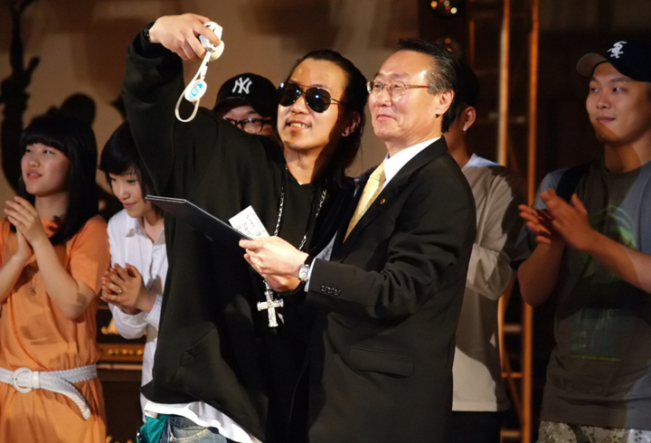 Winner of Hanyang Singing Contest is taking photo with President Kim